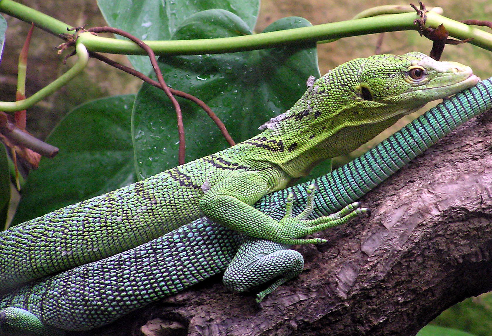 Green tree monitor lizard Varanus prasinus at Bristol Zoo, Bristol, England. There are two here, head to tail. Photographed by Adrian Pingstone in September 2005 and released to the public domain.